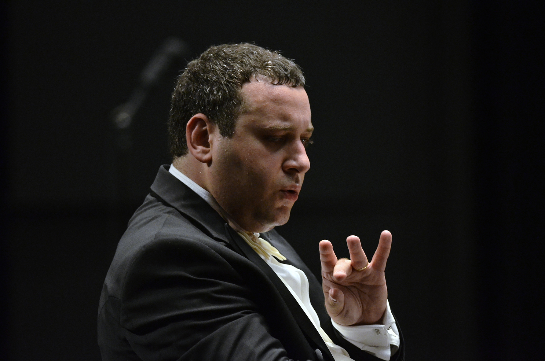 Antonino Fogliani